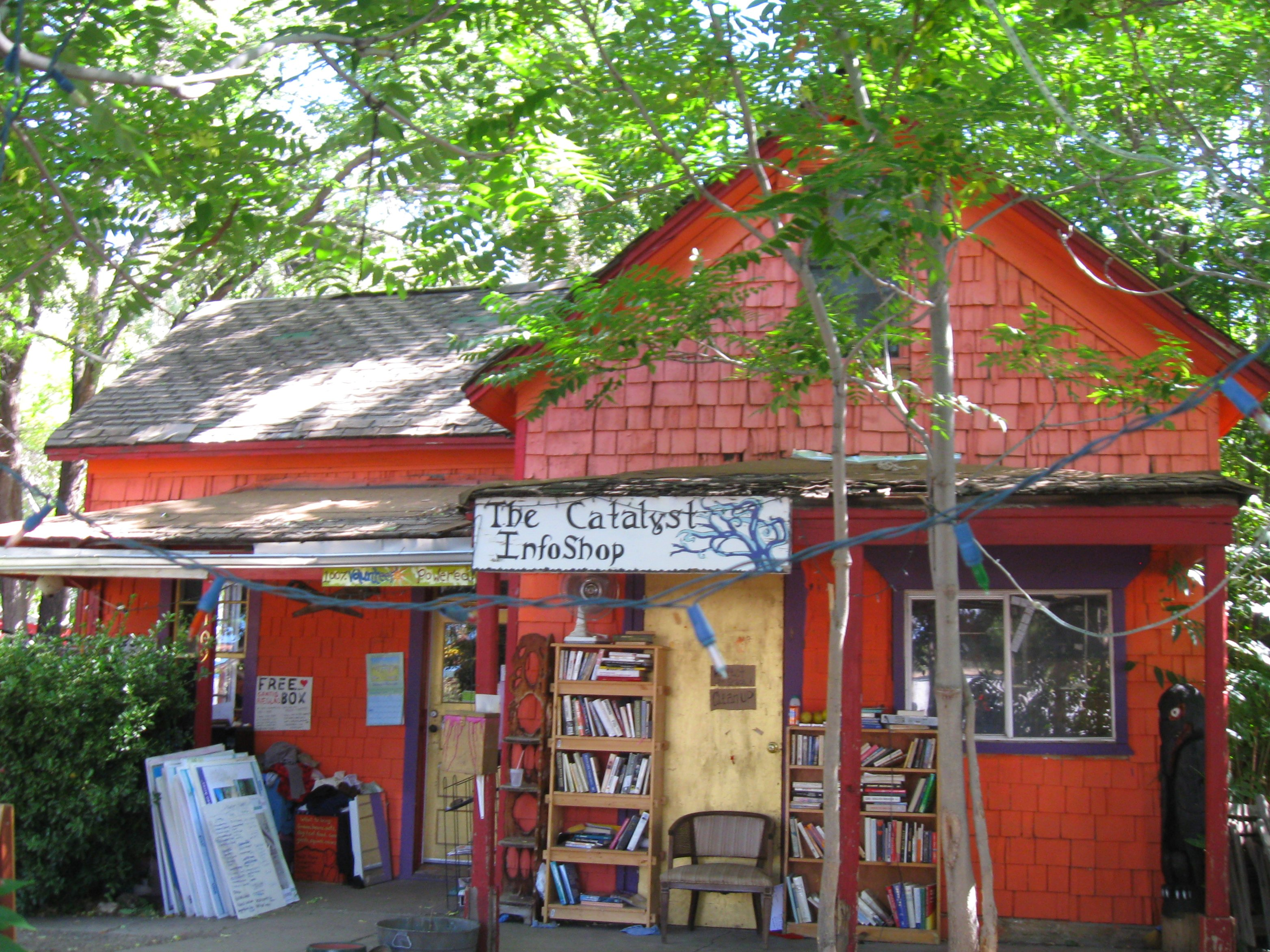 1. Chemistry A substance, usually used in small amounts relative to the reactants, that modifies and increases the rate of a reaction without being consumed in the process. 2. One that precipitates a process or event, especially without being involved in or changed by the consequences